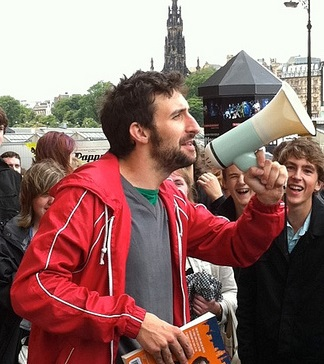 Mark Watson's roaming Edinburgh book launch for Eleven